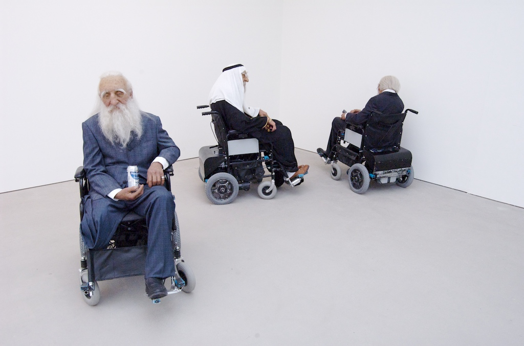 Old persons home by Sun Yuan and Peng Yu taken in Saatchi Gallery London - published with permission from gallery